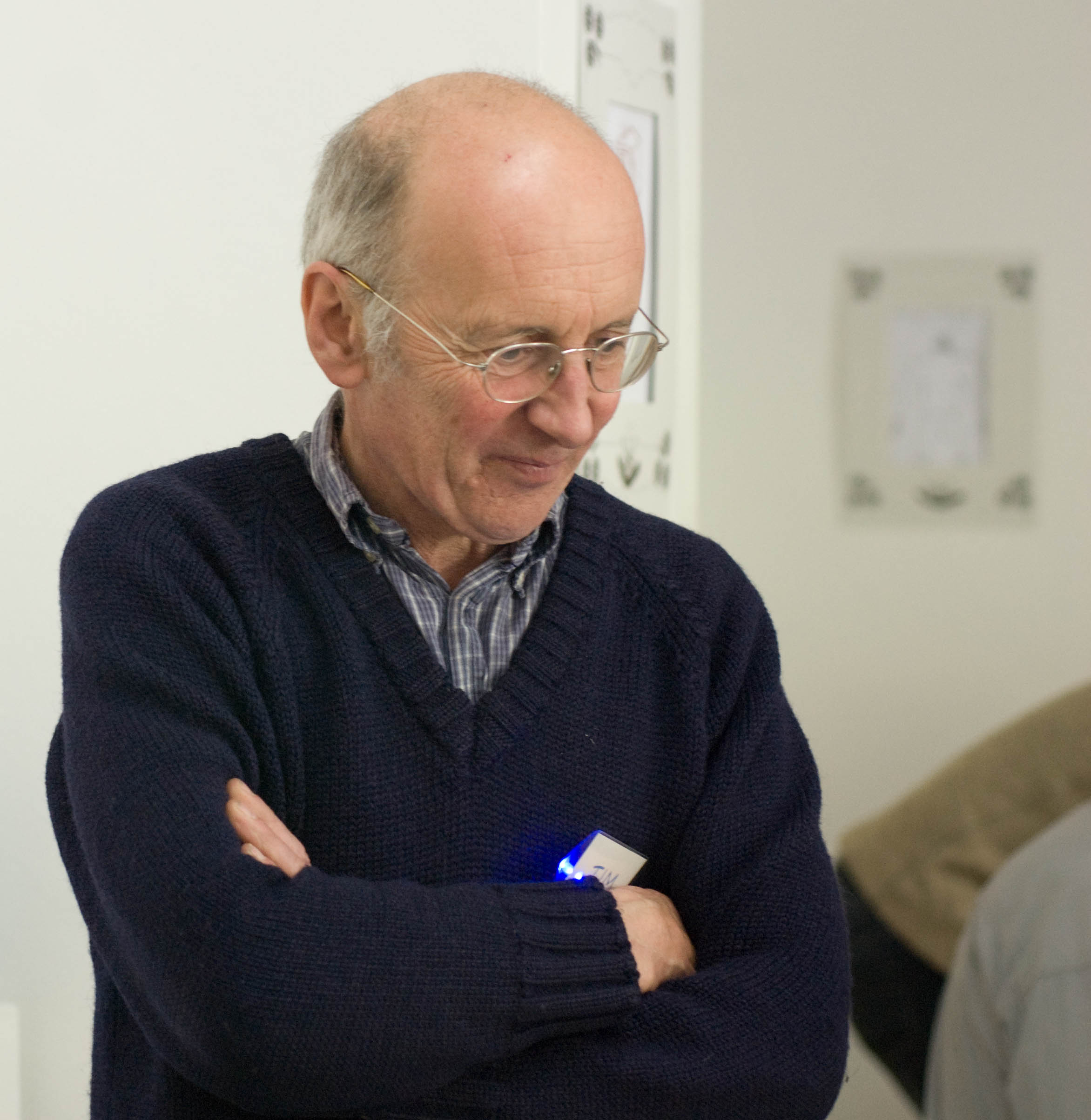 Hunkin at the MadLab Manchester Digital Laboratory's Robot Hackday in 2010.